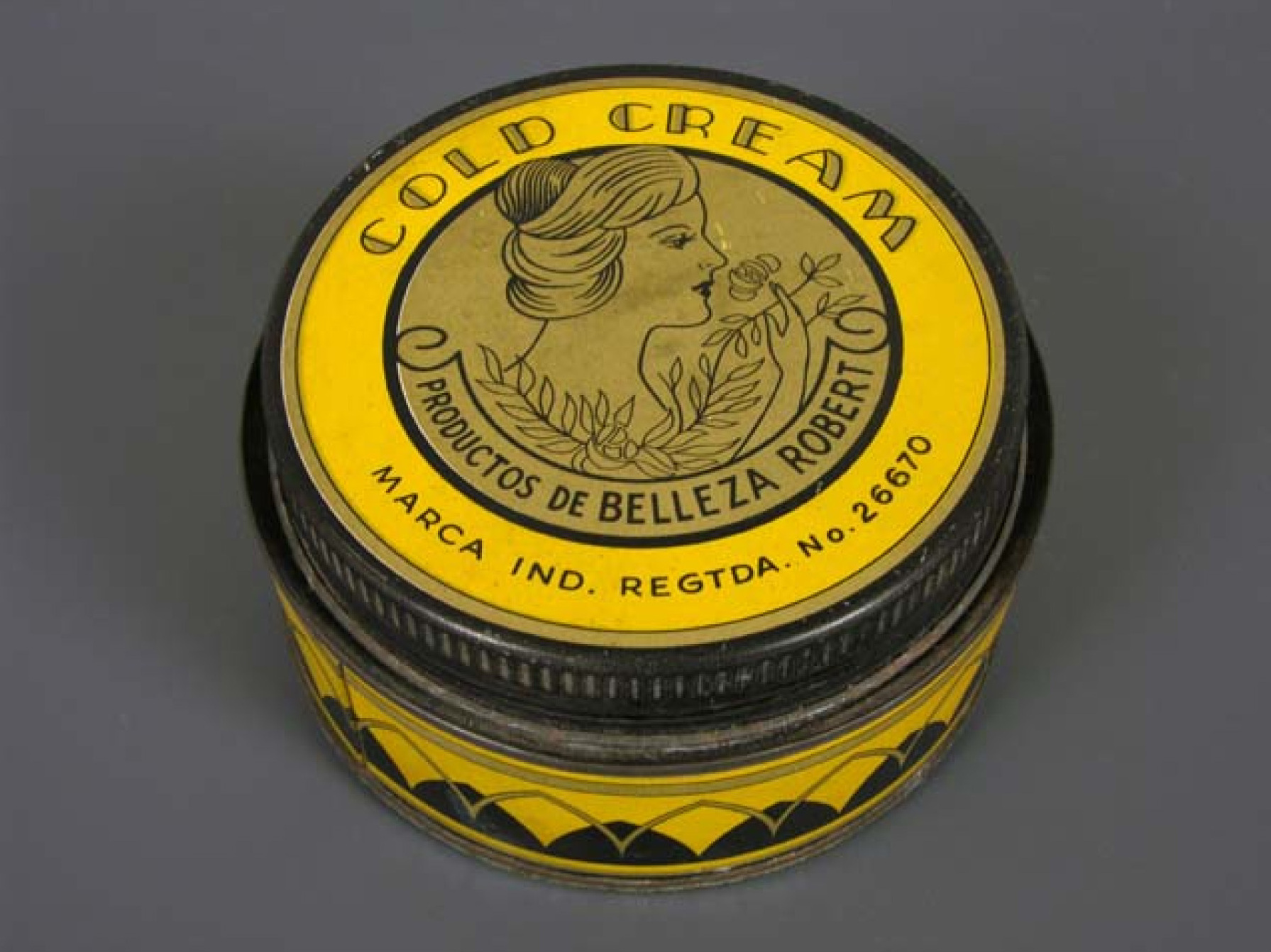 Container for Belleza Robert Cold Cream from Mexico first half of 20th century.